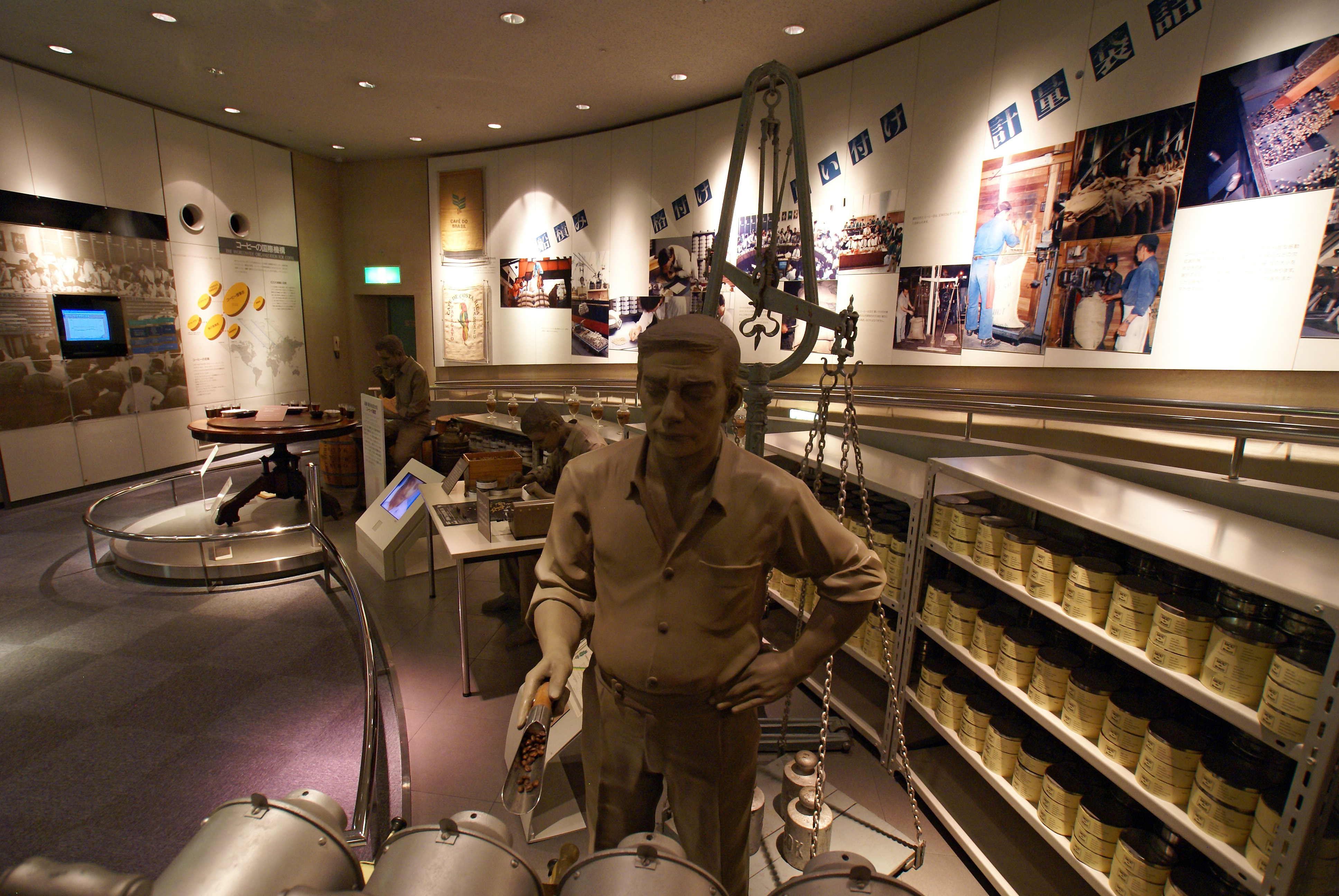 UCC Coffee Museum in Kobe, Hyogo prefecture, Japan